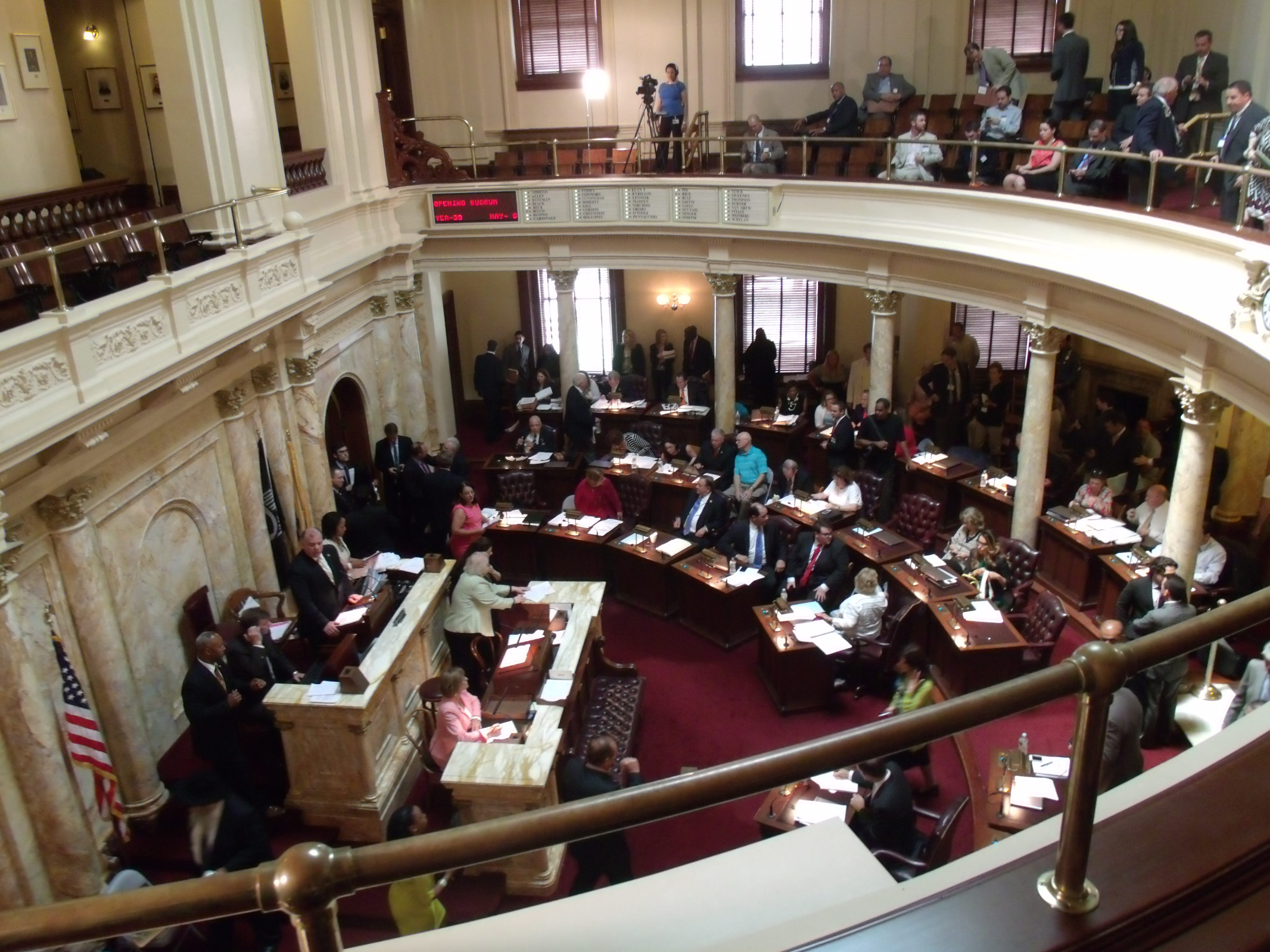 The State Senate of New Jersey in action in the senate chamber, June 2013. Posted to show an example of the State Senate in action. Trenton, New Jersey.